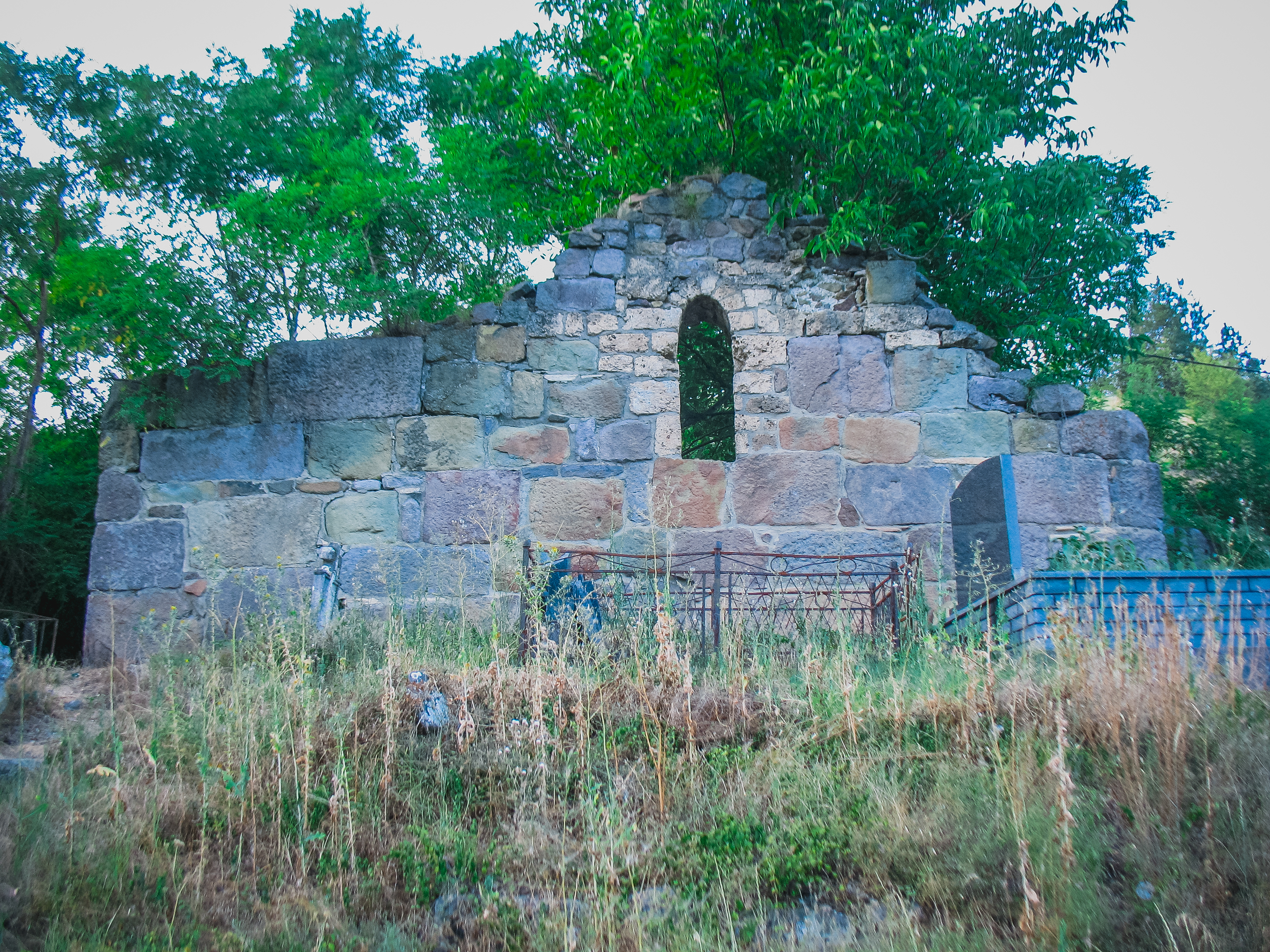 Church of Saint Nicholas,below Brvenik Fortress,near Raška,Serbia.